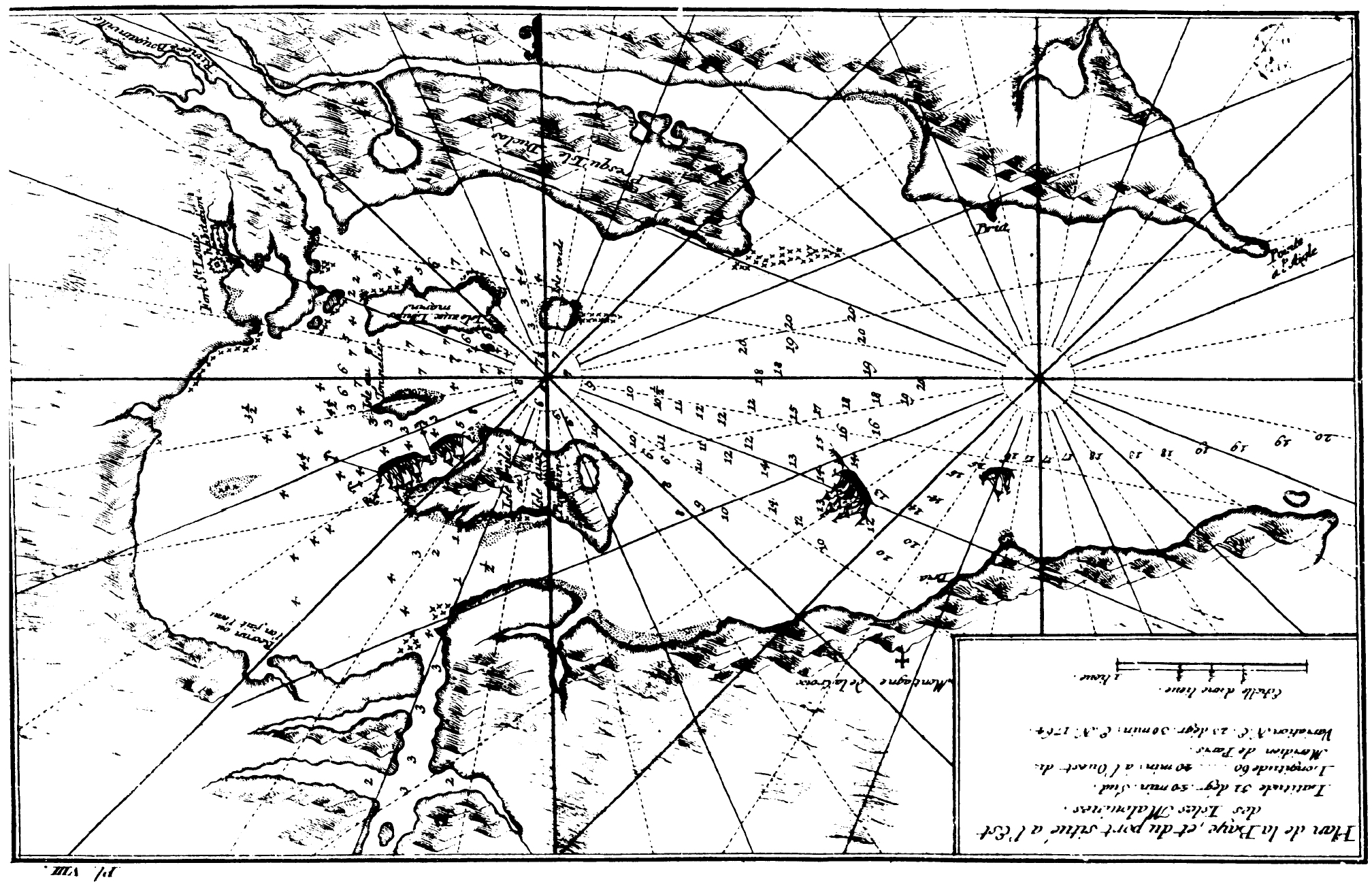 Map of Baye Accaron (Berkeley Sound), Falkland Islands (Dom Pernety, 1769). The originally South-Up map is turned upside down here for an easier coastline recognition.